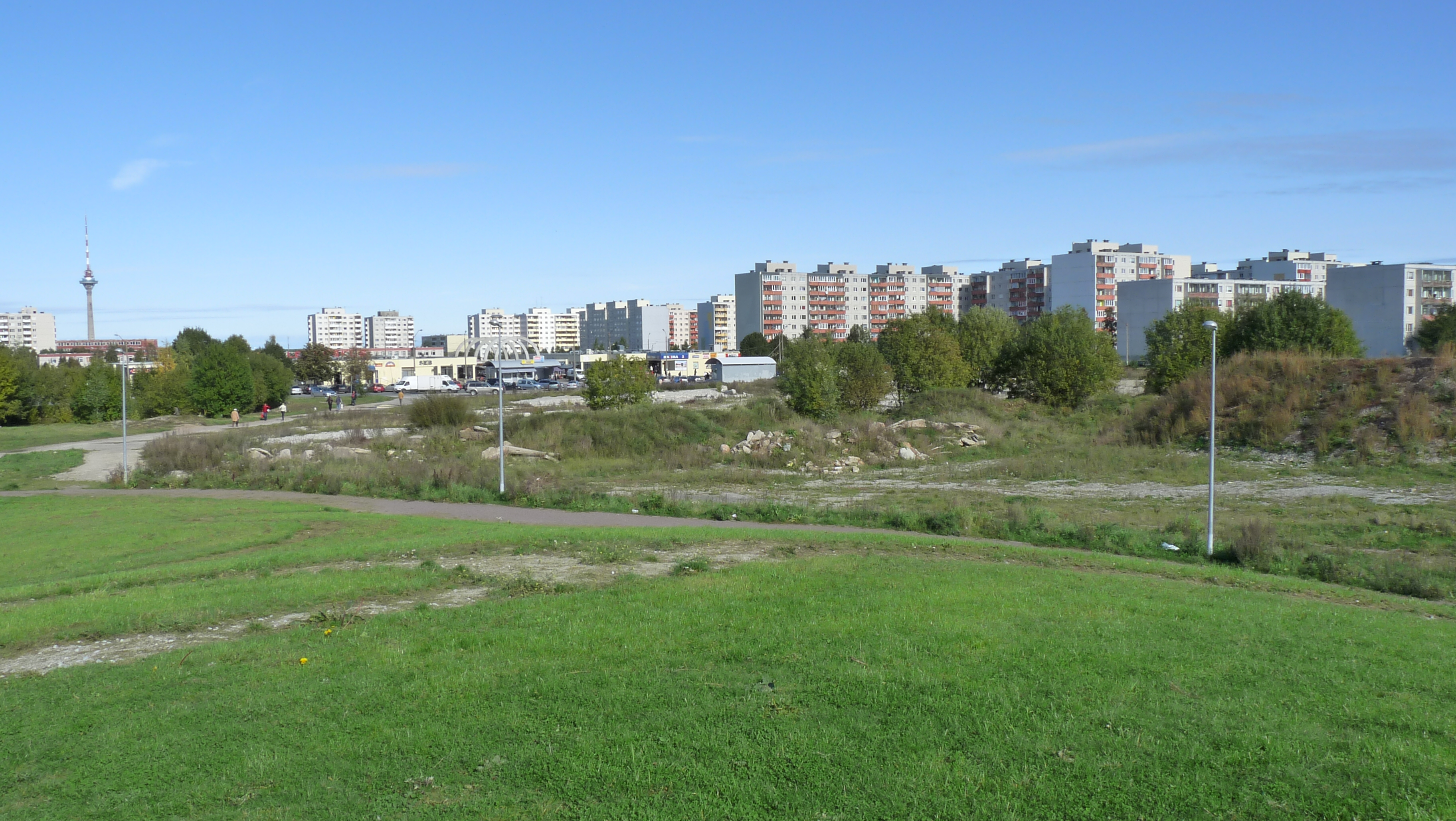 Priisle